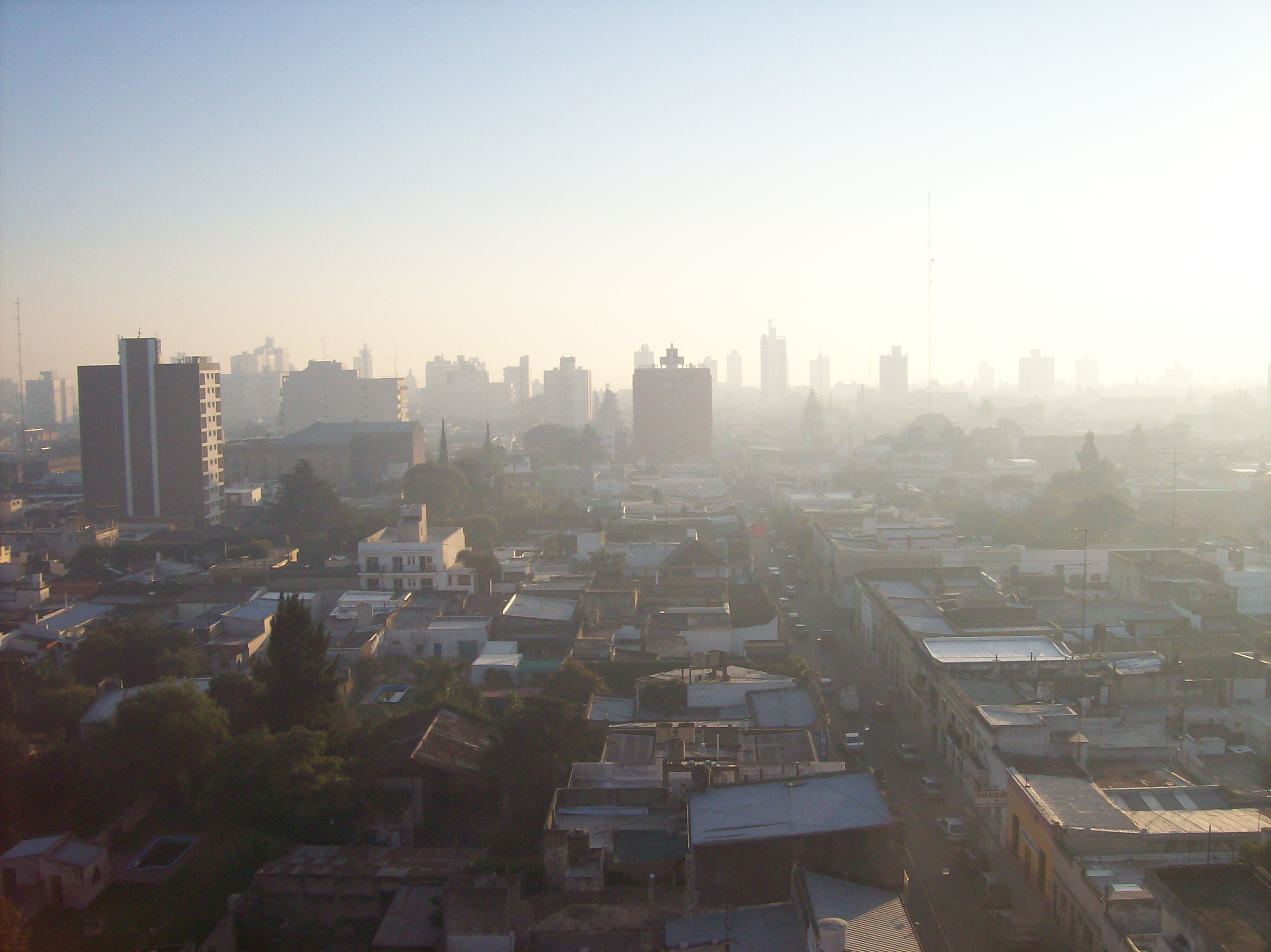 Smoke all over the city of San Nicolás, Buenos Aires, Argentina.